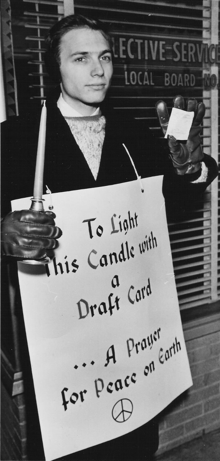 Gene Keyes ready to burn his draft card on December 24, 1963.